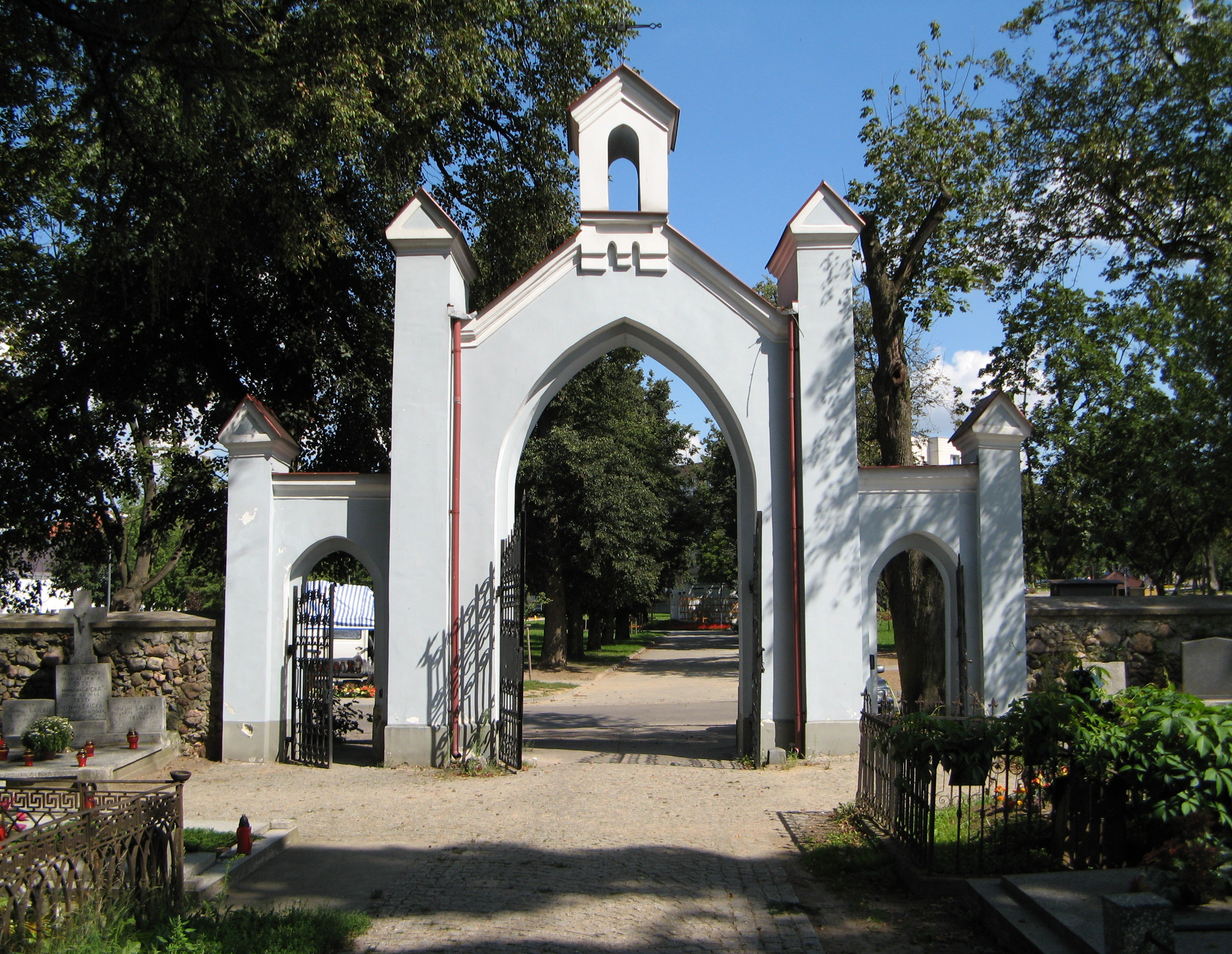 Historic gate at Cathedral Cemetery in Łomża